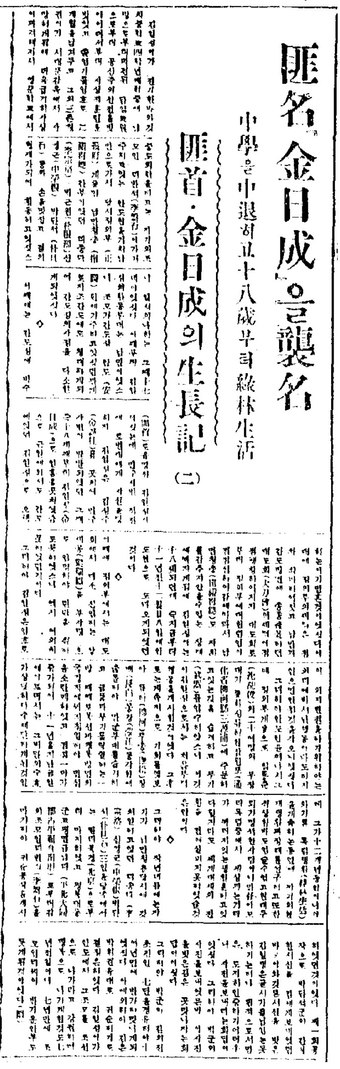 Biographical Sketch of Bandit Leader Kim Il-sung (2) : Mansun Ilbo (滿鮮日報) 1940/04/18, p.6